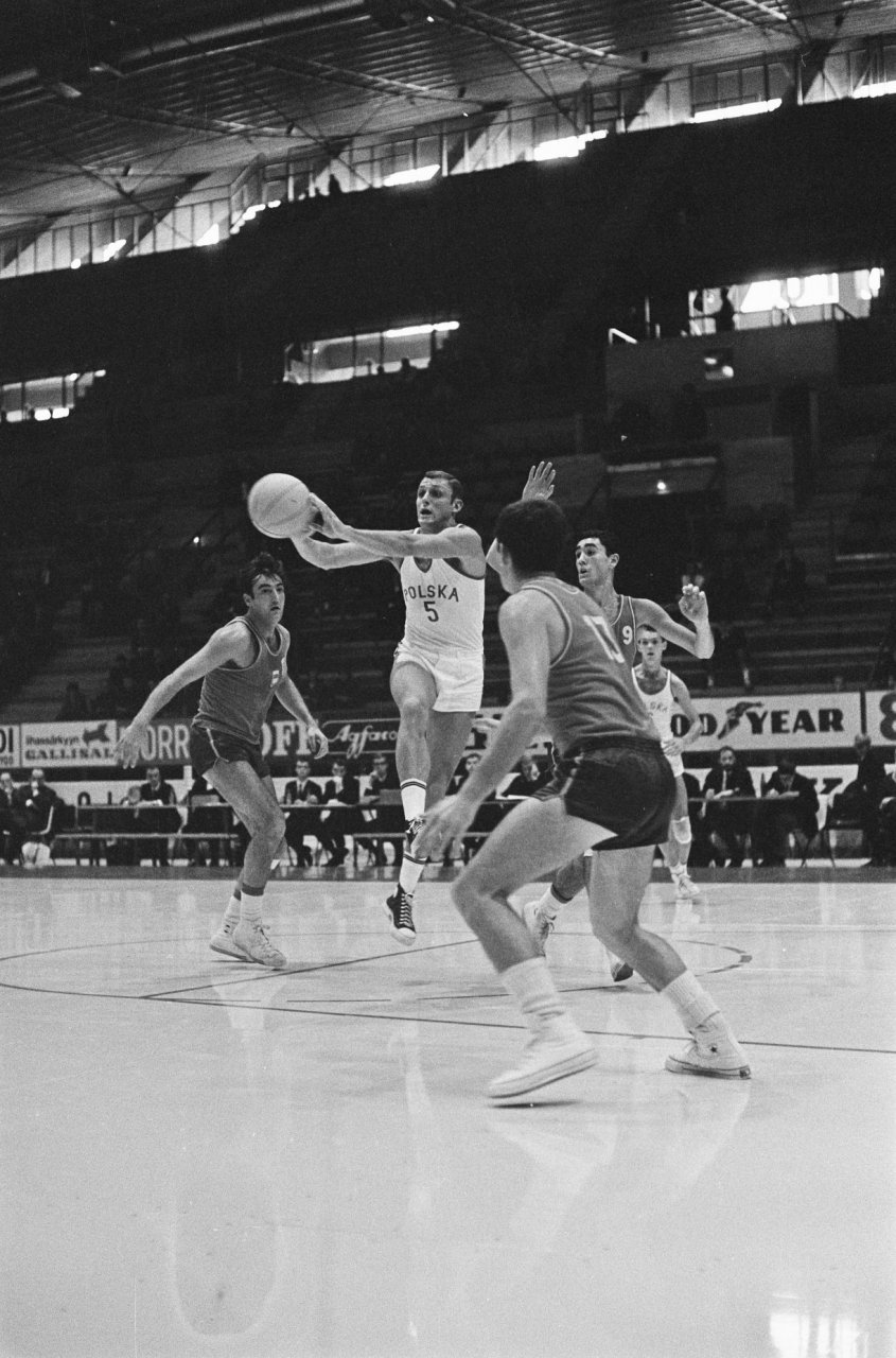 European basketball championship 1968 in Helsinki, Spain vs Poland